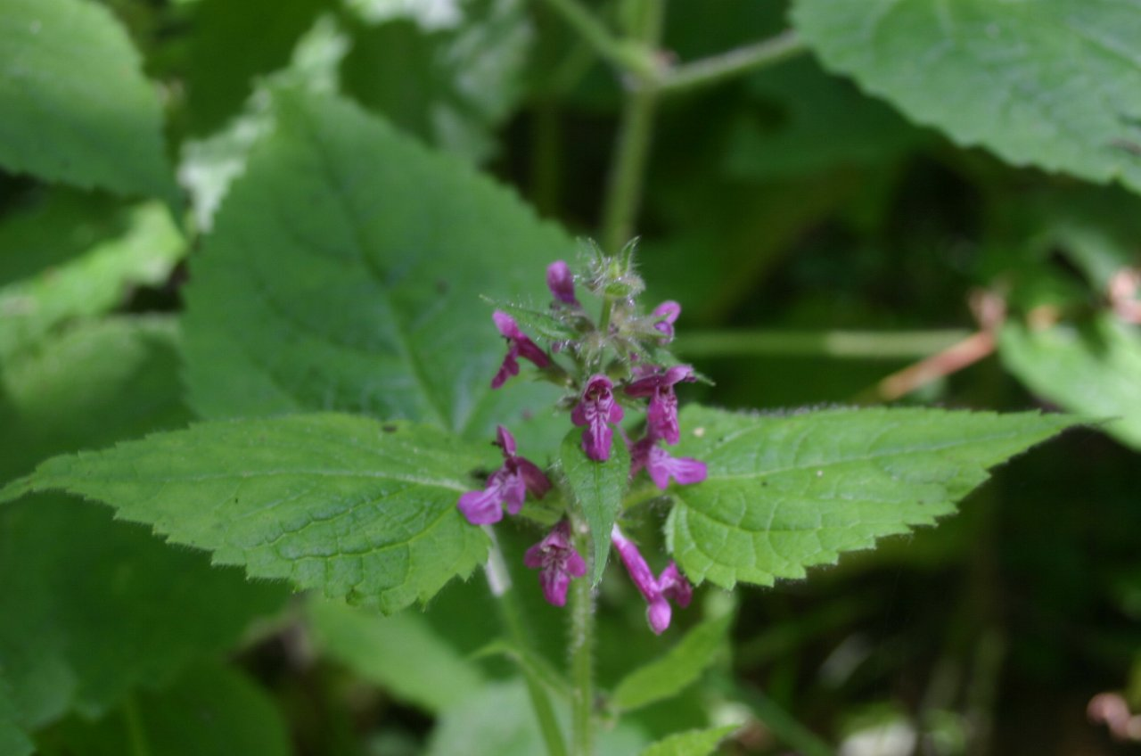 Stachys sylvatica: Flowers and leaves. Phote: Sten Porse